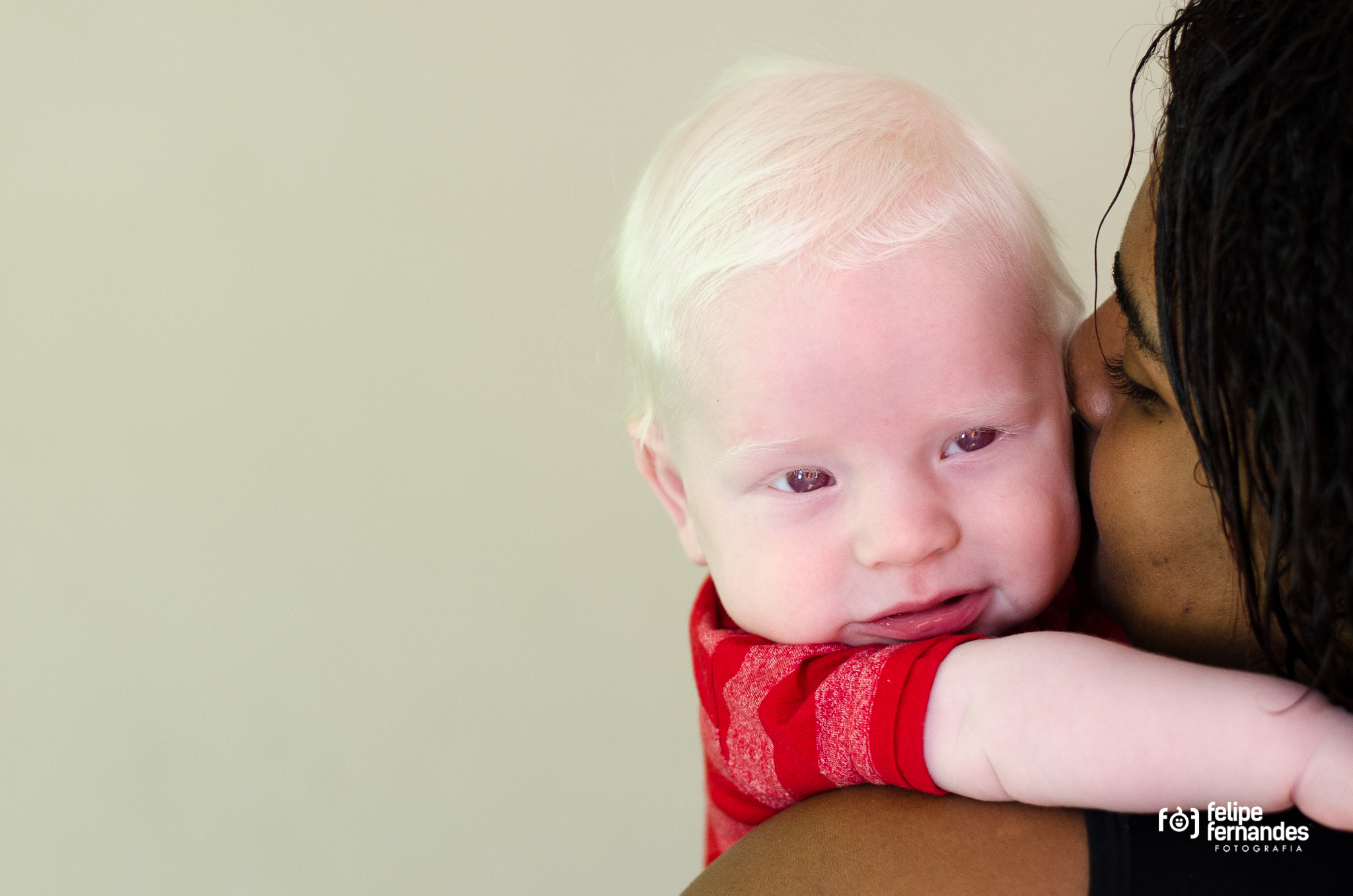 João Pedro, an albino baby. By Felipe Fernandes.